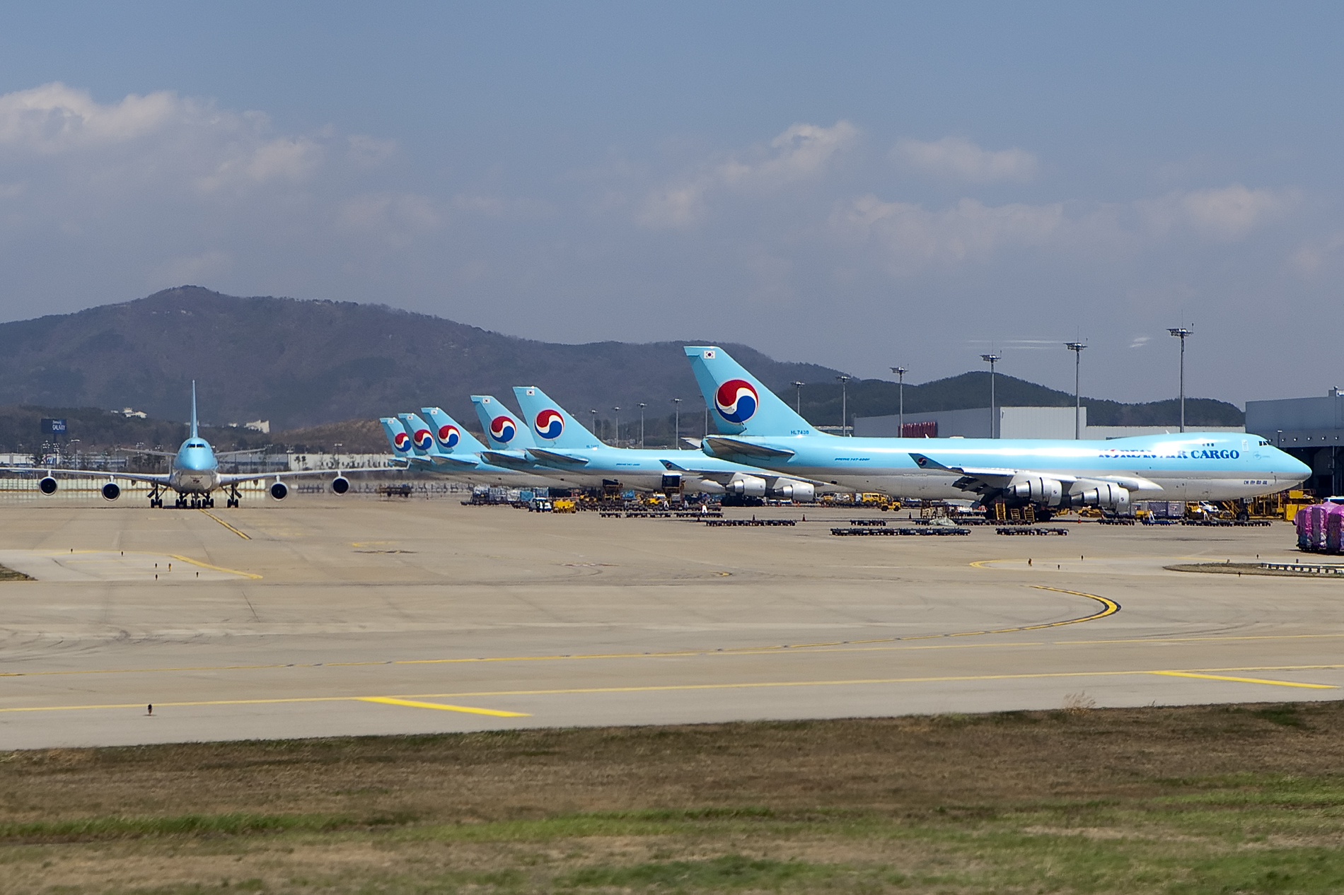 Seoul-Incheon